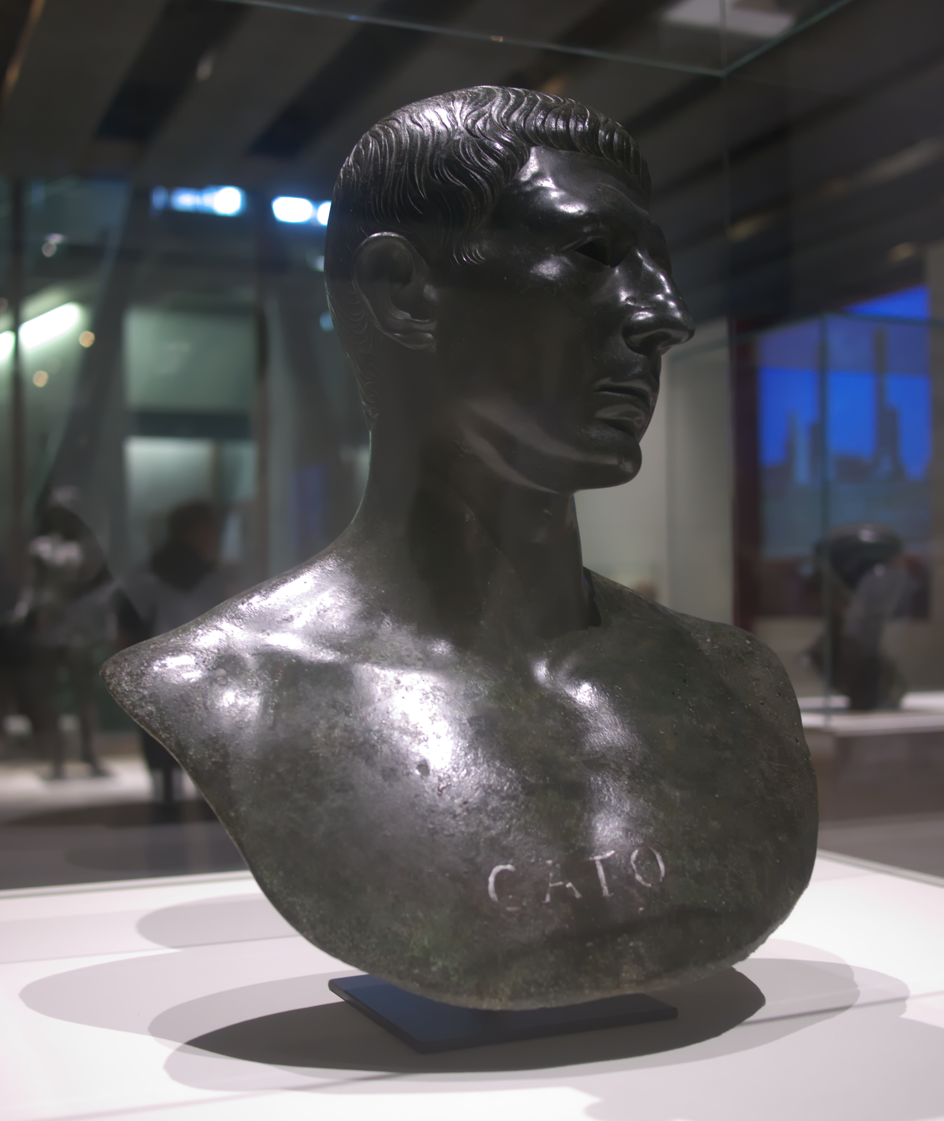 photograph taken during the temporary exposition that took place at the MuCEM of Marseille in august 2014.